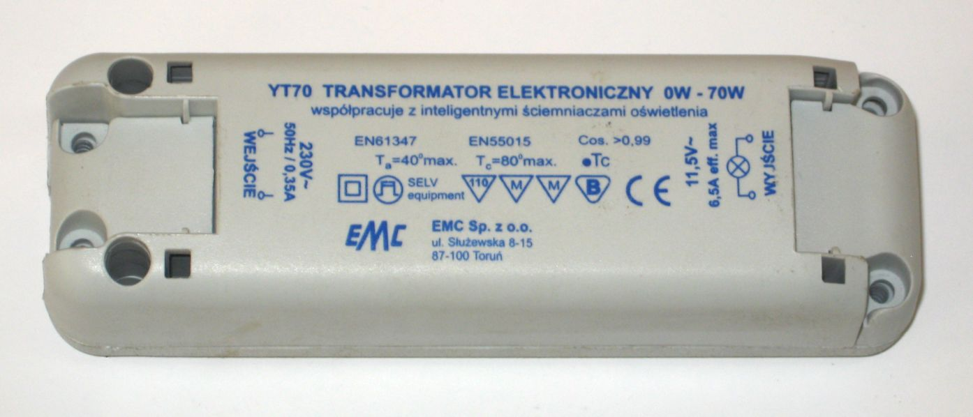 "Electronic transformer" for halogen lamps 12V 70W